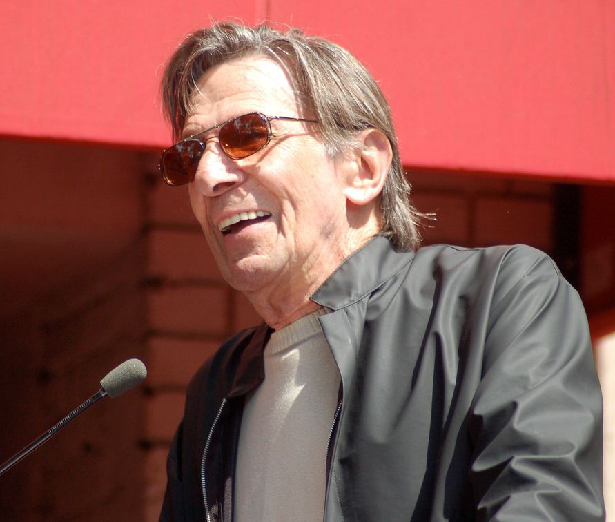 Leonard Nimoy at a ceremony for Walter Koenig to receive a star on the Hollywood Walk of Fame.